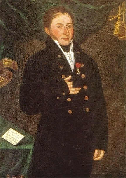 Giuseppe Rondizzoni